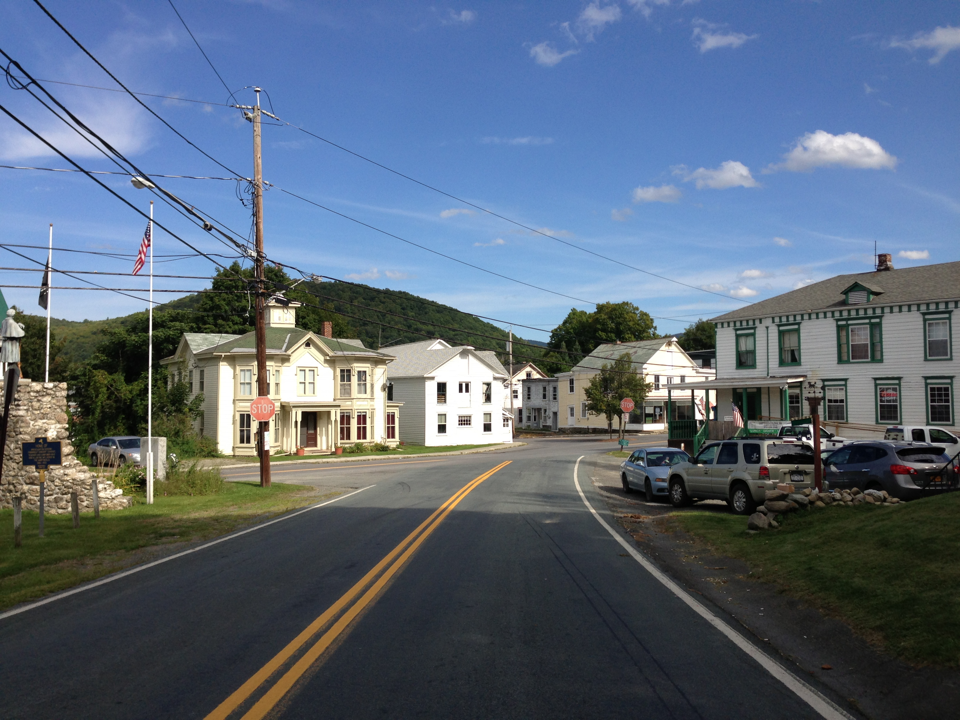 View east along Rensselaer County Route 40 (Plank Road) just west of Rensselaer County Route 36 (Main Street) in Berlin, Rensselaer County, New York